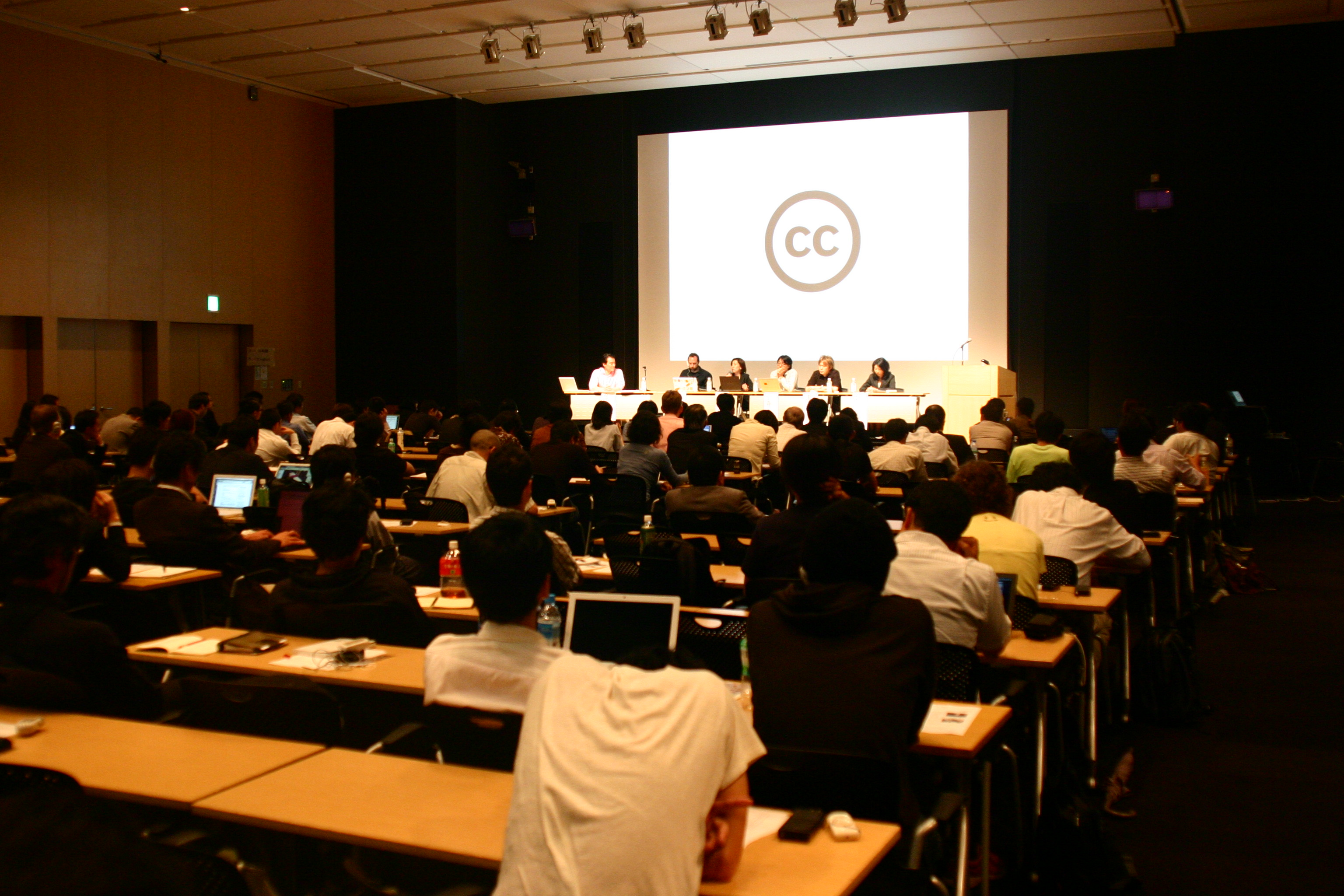 6th Creative Commons Japan Seminar